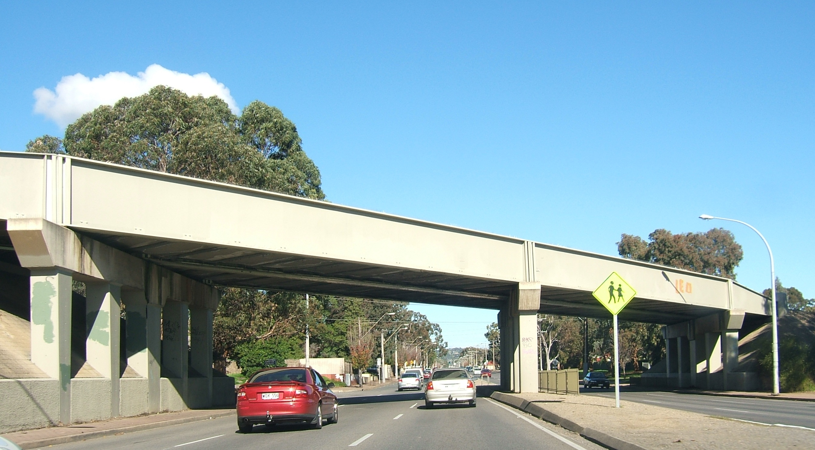 Rail overpass at Mitchell Park, Adelaide